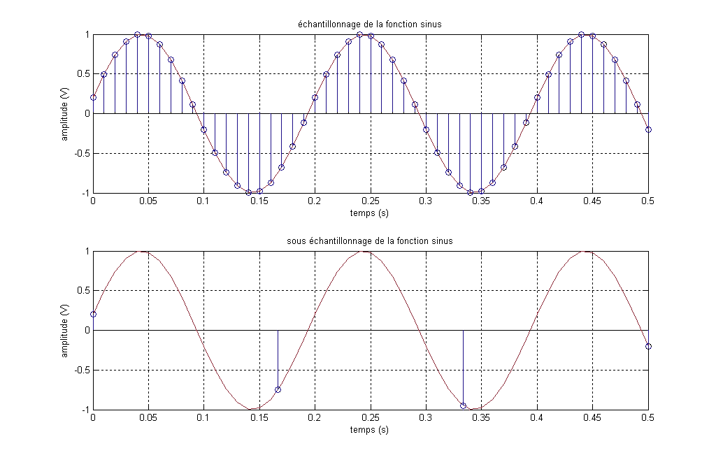 sampling and undersampling of the sine function